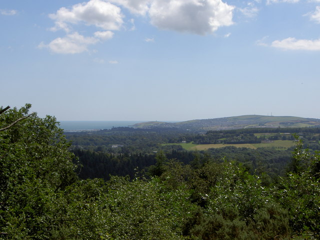 View of Wicklow and Wicklow Head as seen from the Devil's Glen.